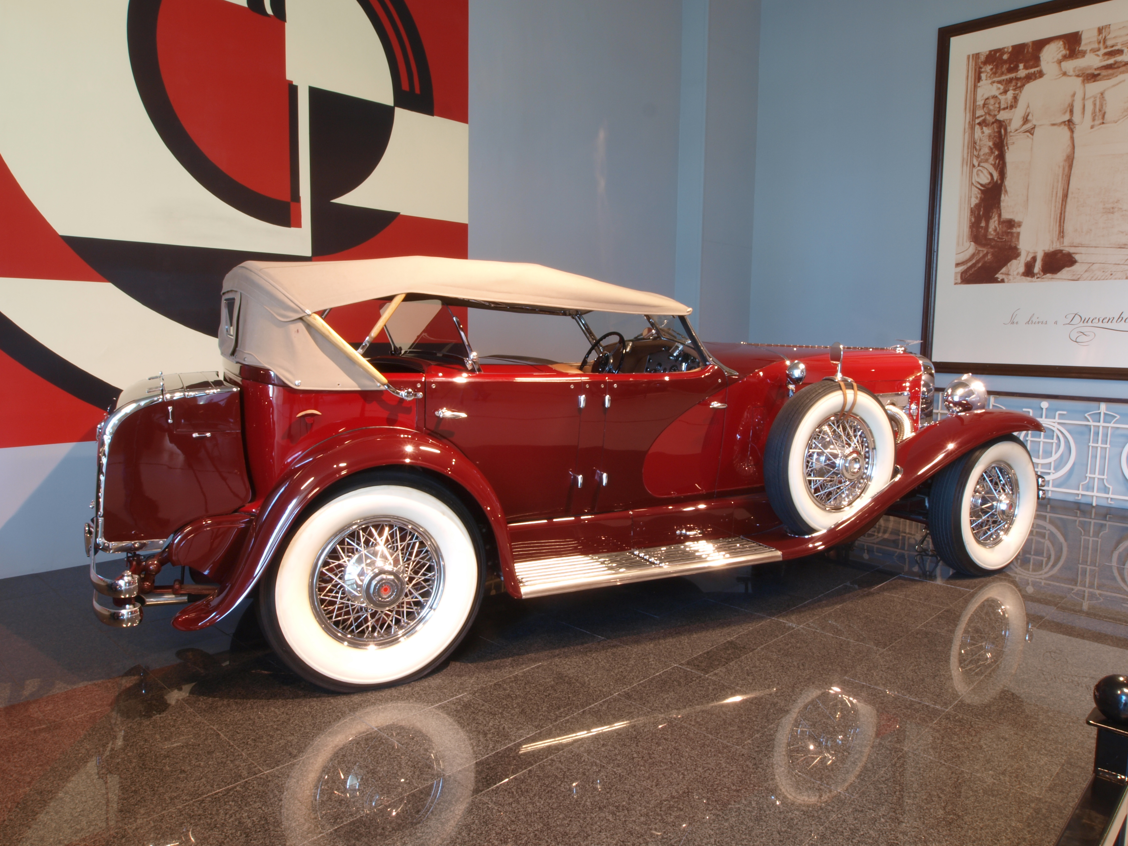 Photographed at the Louwman museum / Louwman Collection, The Netherlands.